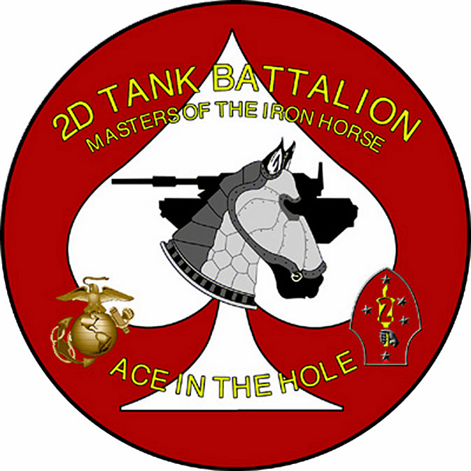 From the Depart of Defense image search website - Defense Visual Information Center. Picture comes up if you search for 2nd Tank Battalion ID: DM-SD-05-12385 Service Depicted: Marines Official logo 2nd Tank Battalion. Location: CAMP LEJEUNE, NORTH CAROLINA (NC) UNITED STATES OF AMERICA (USA) Date Shot: 1 Jan 2005